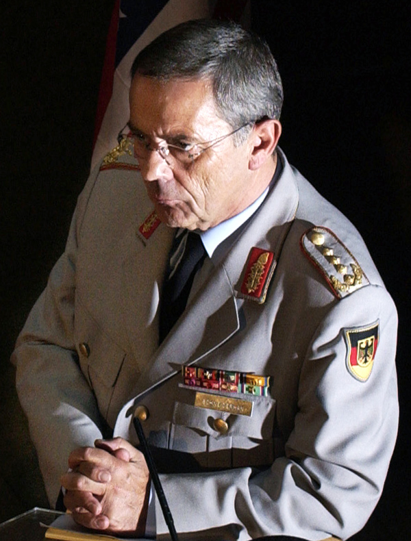 Gen. Wolfgang Schneiderhan, Generalinspekteur der Bundeswehr, taking questions from the German media during a press conference at the Federal Ministry Building in Berlin, Germany, on July 18, 2005. DoD photo by Staff Sgt. D. Myles Cullen, U.S. Air Force.